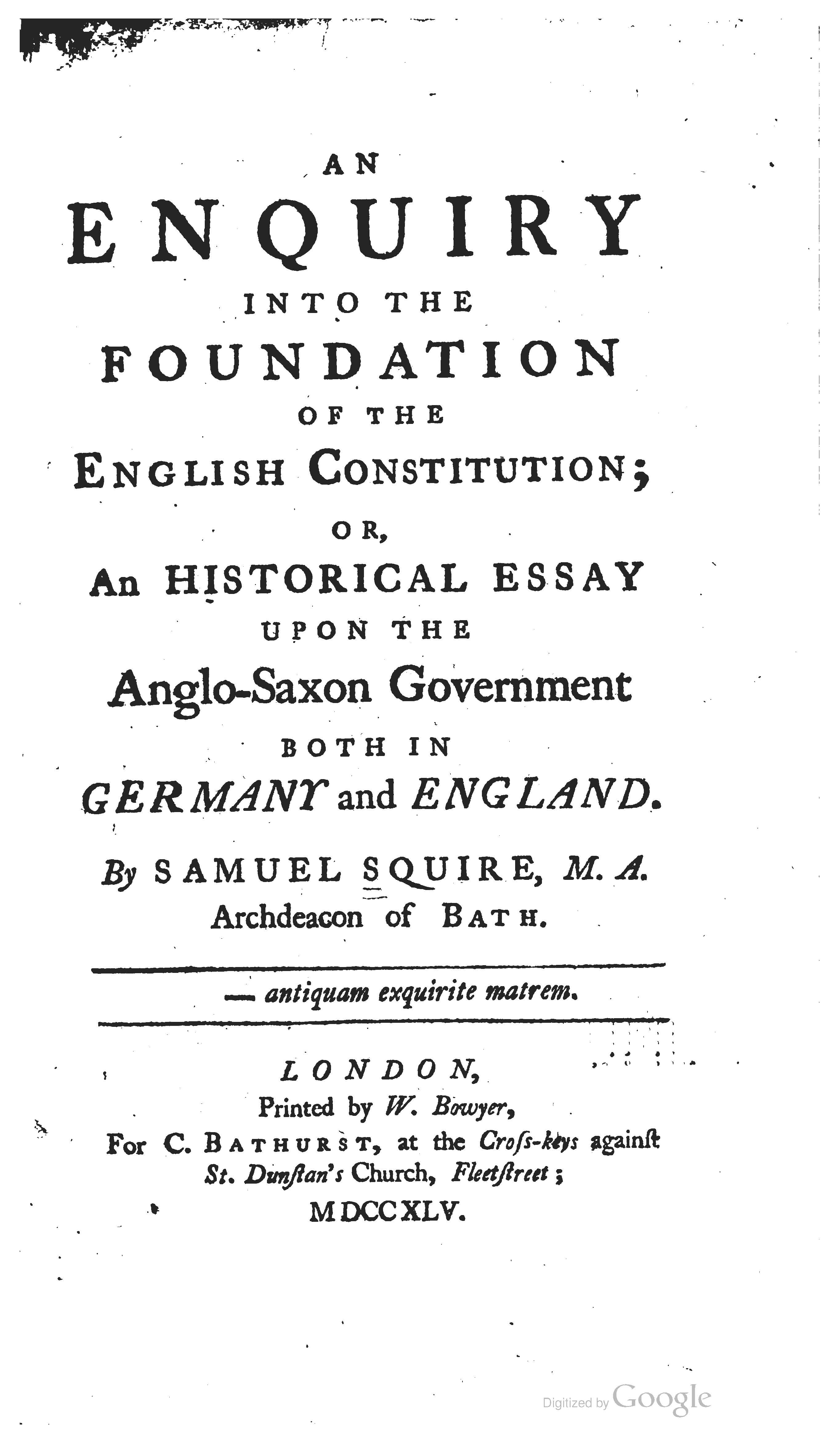 Title page of Samuel Squire (1745) An Enquiry into the Foundation of the English Constitution; or, an Historical Essay upon the Anglo-Saxon Government both in Germany and England. By Samuel Squire, M.A. Archdeacon of Bath (PDF), London: Printed by W[illiam] Bowyer, for C. Bathurst, at the Cross-Keys against St. Dunstan's Church, Fleetstreet OCLC: 642240567.